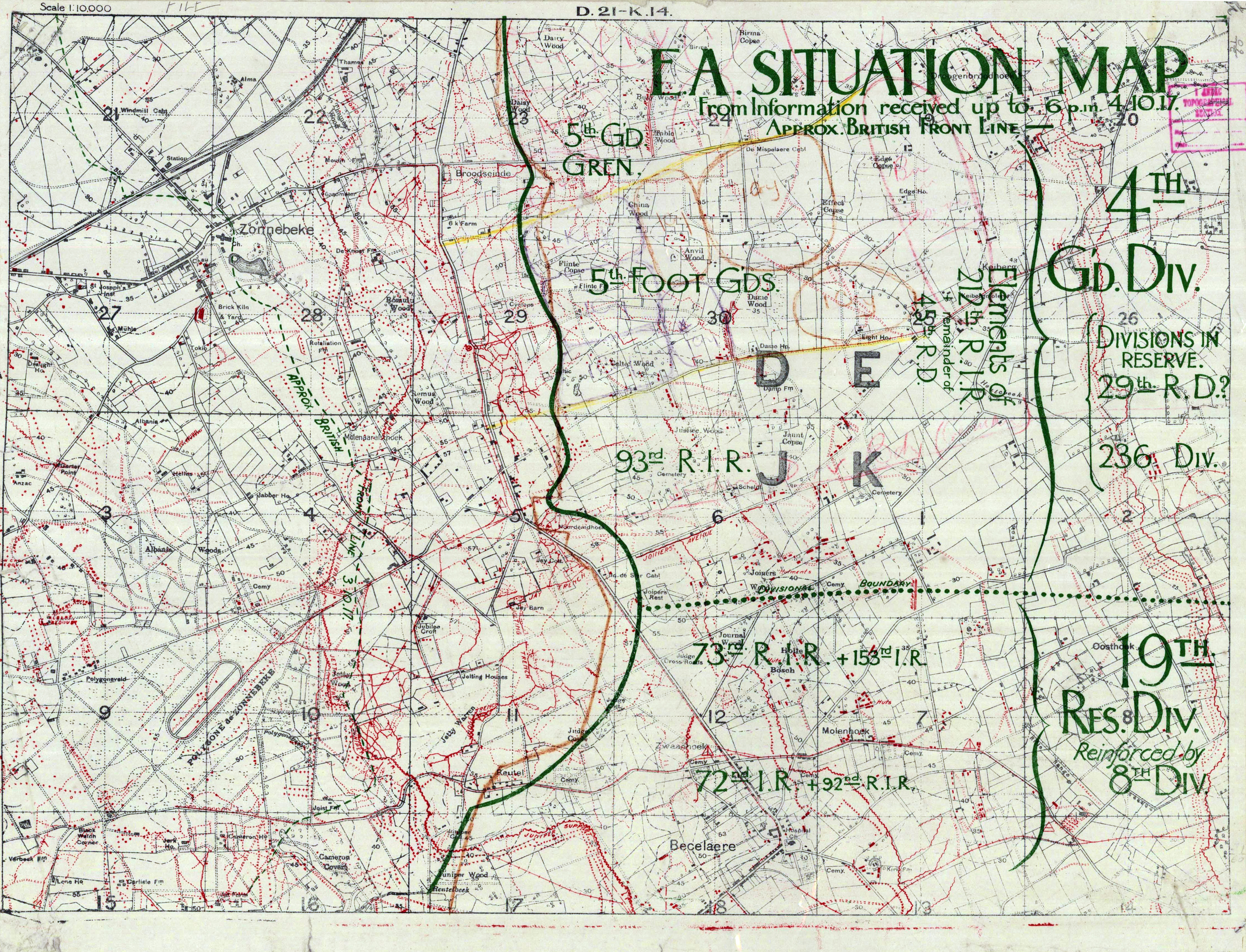 1:10000 scale situation map from the Battle of Broodseinde during the Third Battle of Ypres. Overprinted to show the British front line and disposition of German forces as of 4 October 1917. Shows also the advance made in the British front line between 3 and 4 October.